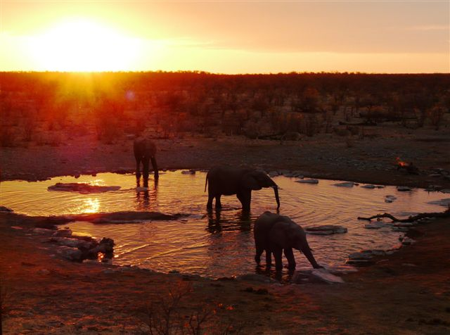 Waterhole Halali, Etosha National Park, Namibia